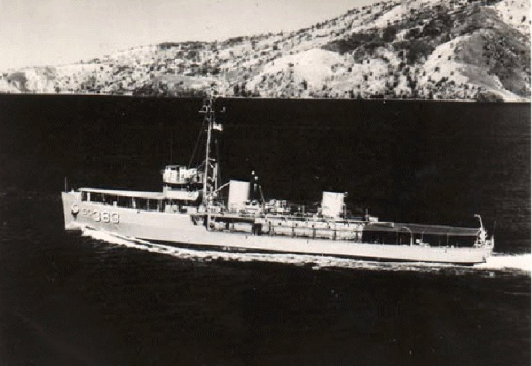 USS Surfbird (ADG-383). Photo by Don Gillispie, crew member 1960-63. img URL